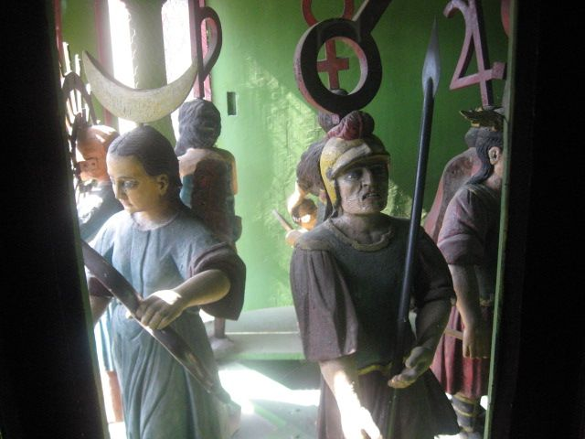 Courtesy of